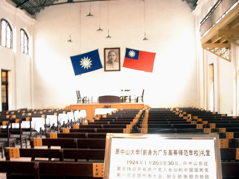 Photo shot by Lukacs in Canton, China. This was the venue where the first party congress of the KMT (Chinese Nationalist Party) took place.